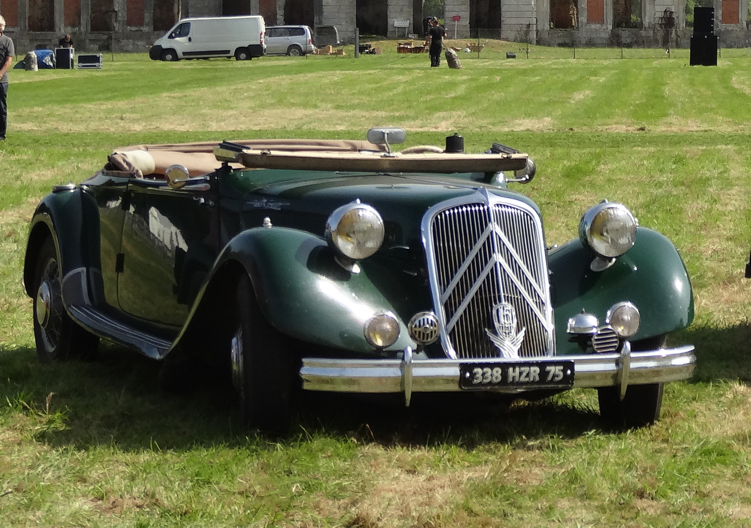 Citroën Traction Avant décapotable